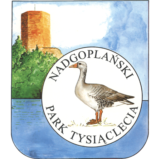 Logo of Gopło Landscape Park